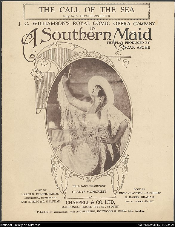 Australian sheet music from A Southern Maid, c. 1917 featuring Gladys Moncrieff. Music by Harold Fraser-Simson.